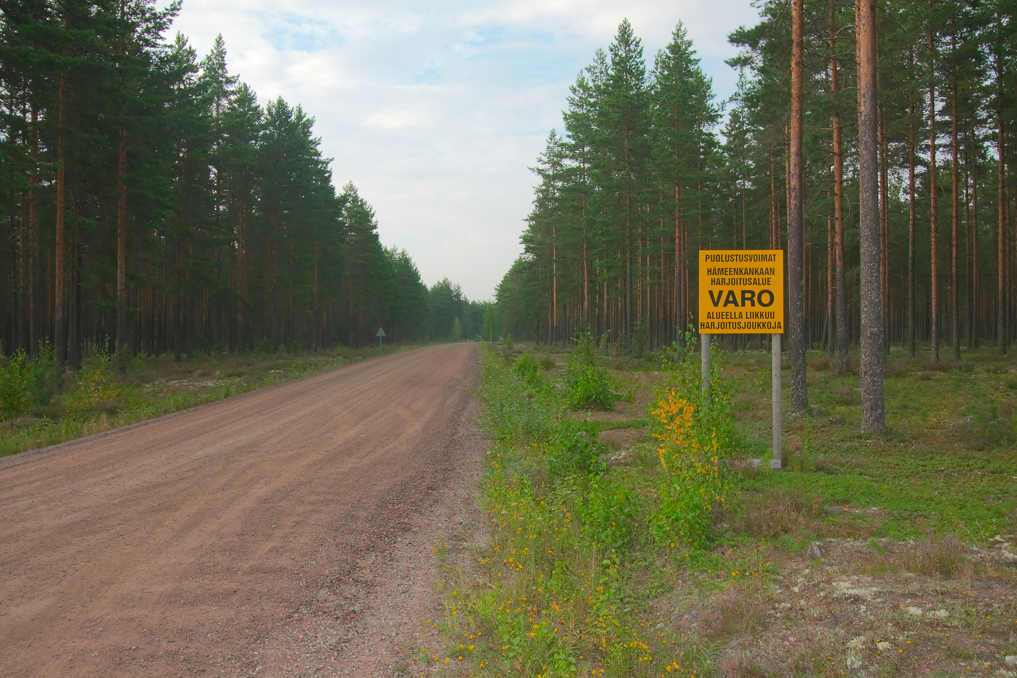 Warning sign of Hämeenkangas military training area near Jämijärvi Airfield in Jämijärvi, Finland